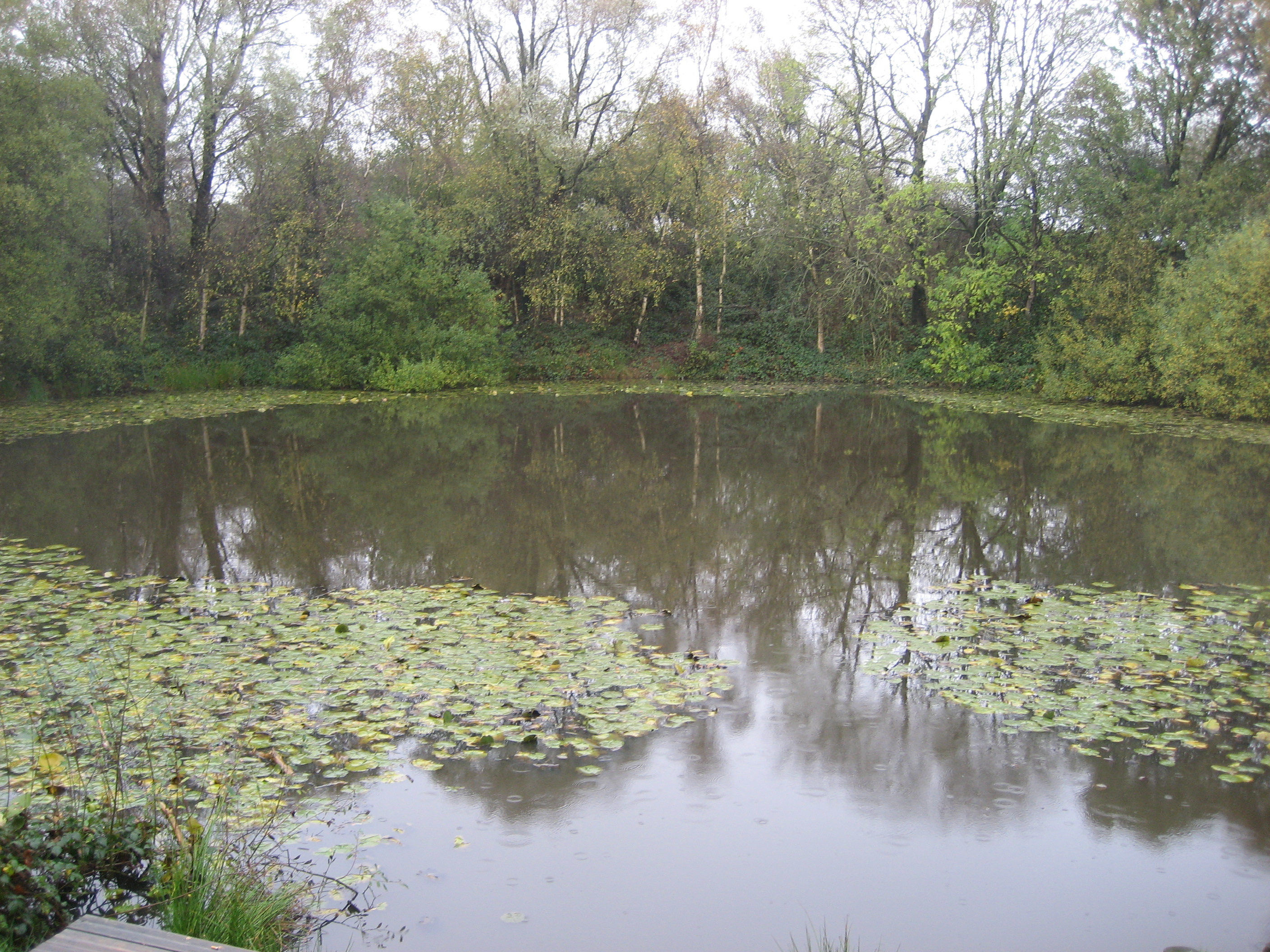 Spanbroekmolen Mine Crater Memorial — The Pool of Peace, also known as Lone Tree Crater. The site of the largest of the mines blown by the British on 7 June 1917 at the start of the Battle of Messines.